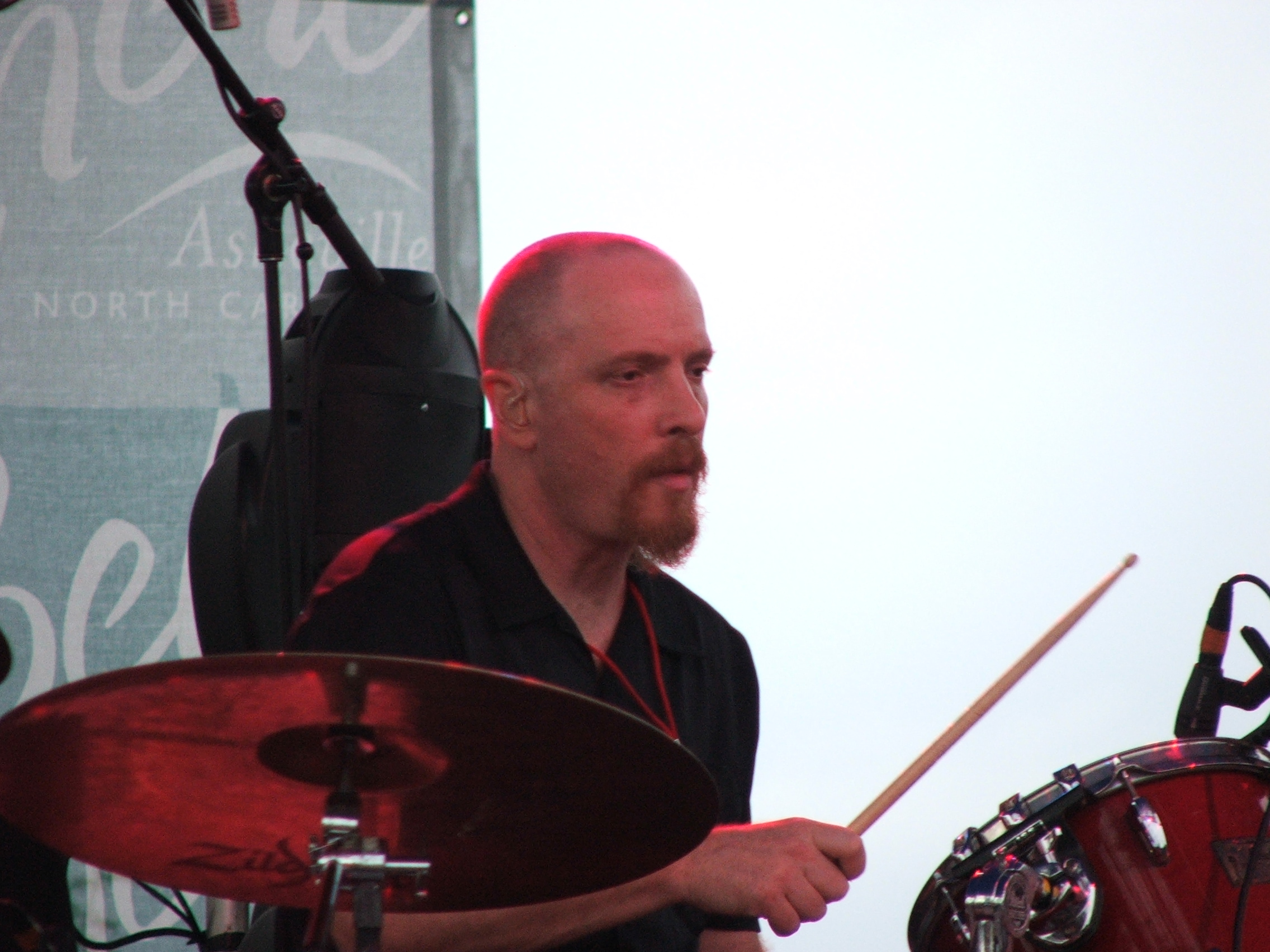 Drummer Frank Funaro of the band Cracker taken in Asheville, NC in July 2006